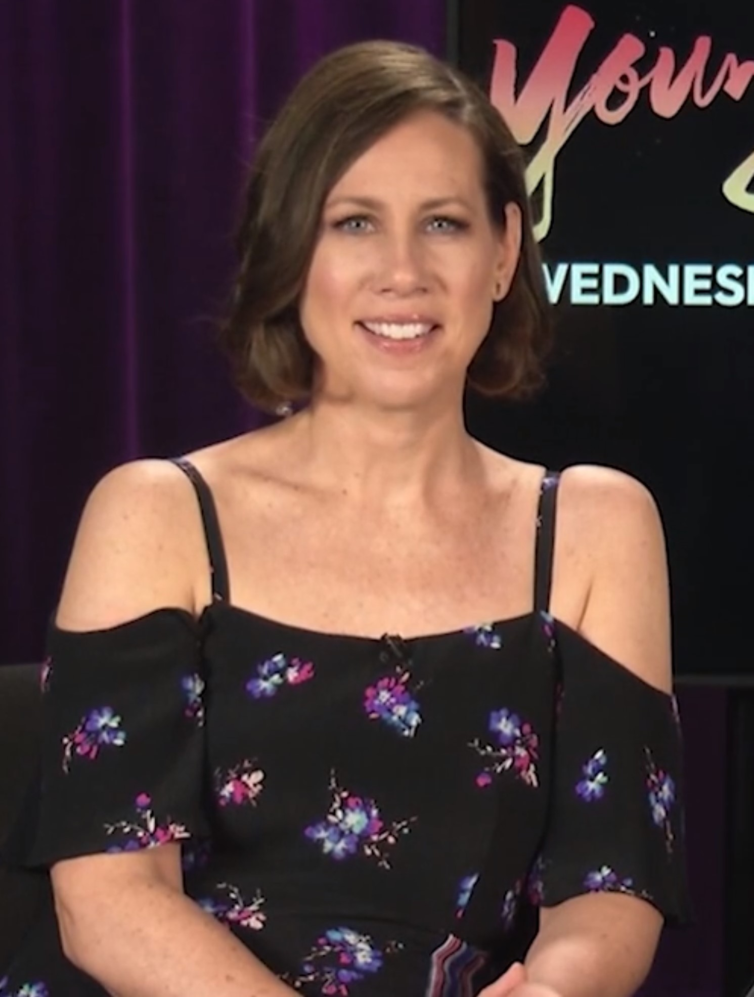 In the extended interview, SIDEWALKS host Lori Rosales talks to "Younger" star Miriam Shor and creator Darren Star about Star's inspiration of his TV shows; why Star thought of Shor for the role of Diana Trout; and did Star, at the beginning, know who Carrie would pick in the "Sex in the City" finale.